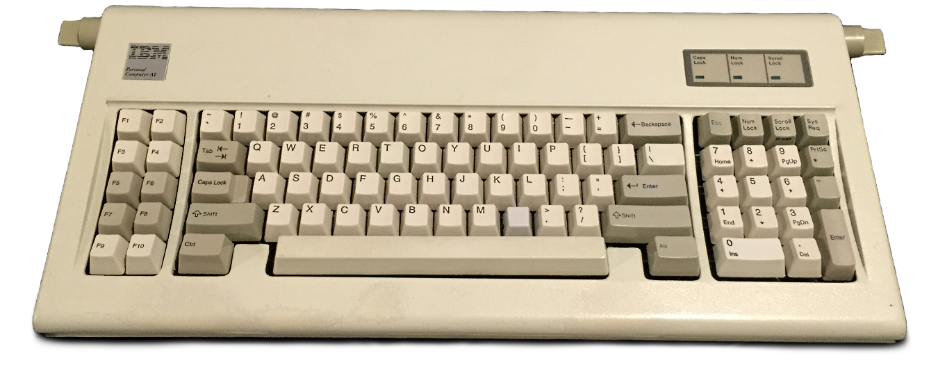 The IBM Model F released for the IBM PC 5170 featuring the AT protocol.